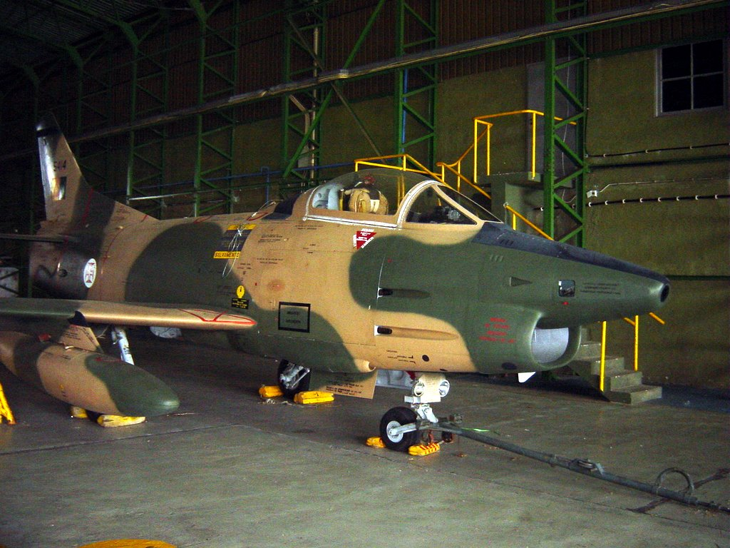 Fiat G.91 at Lajes Airfield.